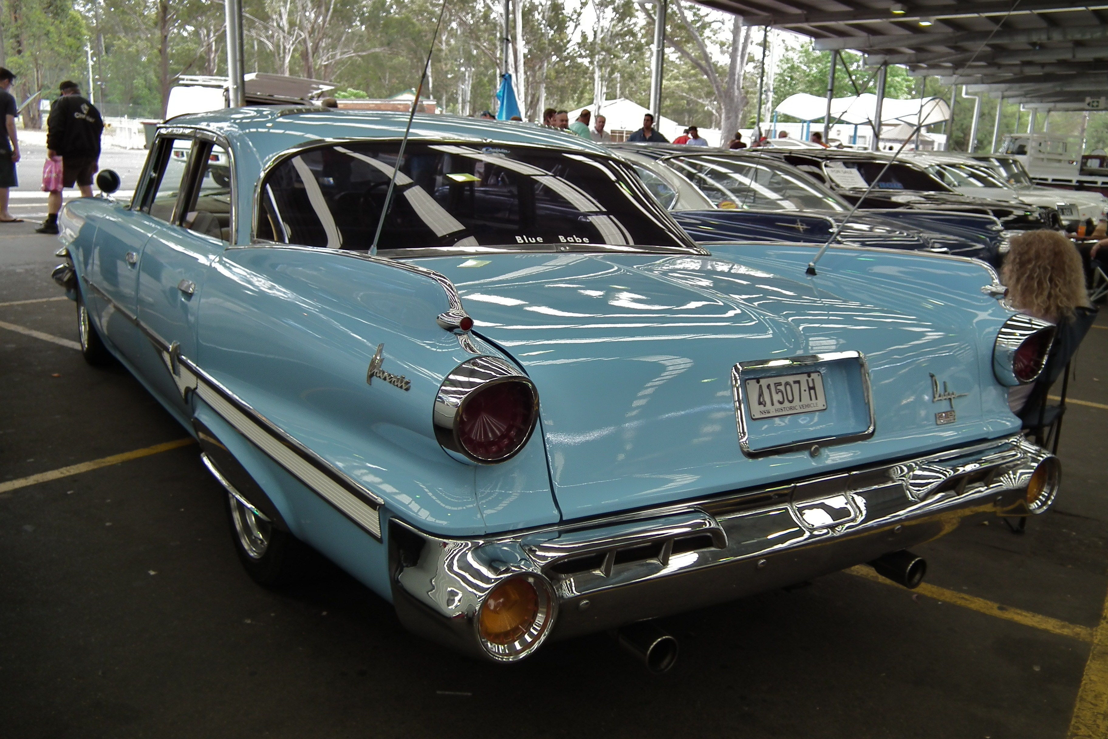 1960 Dodge PD4 Phoenix sedan. Australian assembled. Taken at the 2011 New South Wales All Chrysler Day, held at Fairfield Showground, Prairiewood, Sydney.